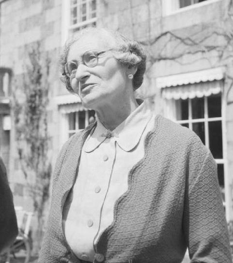 Sibyl Hathaway, Dame of Sark, talking to German officers